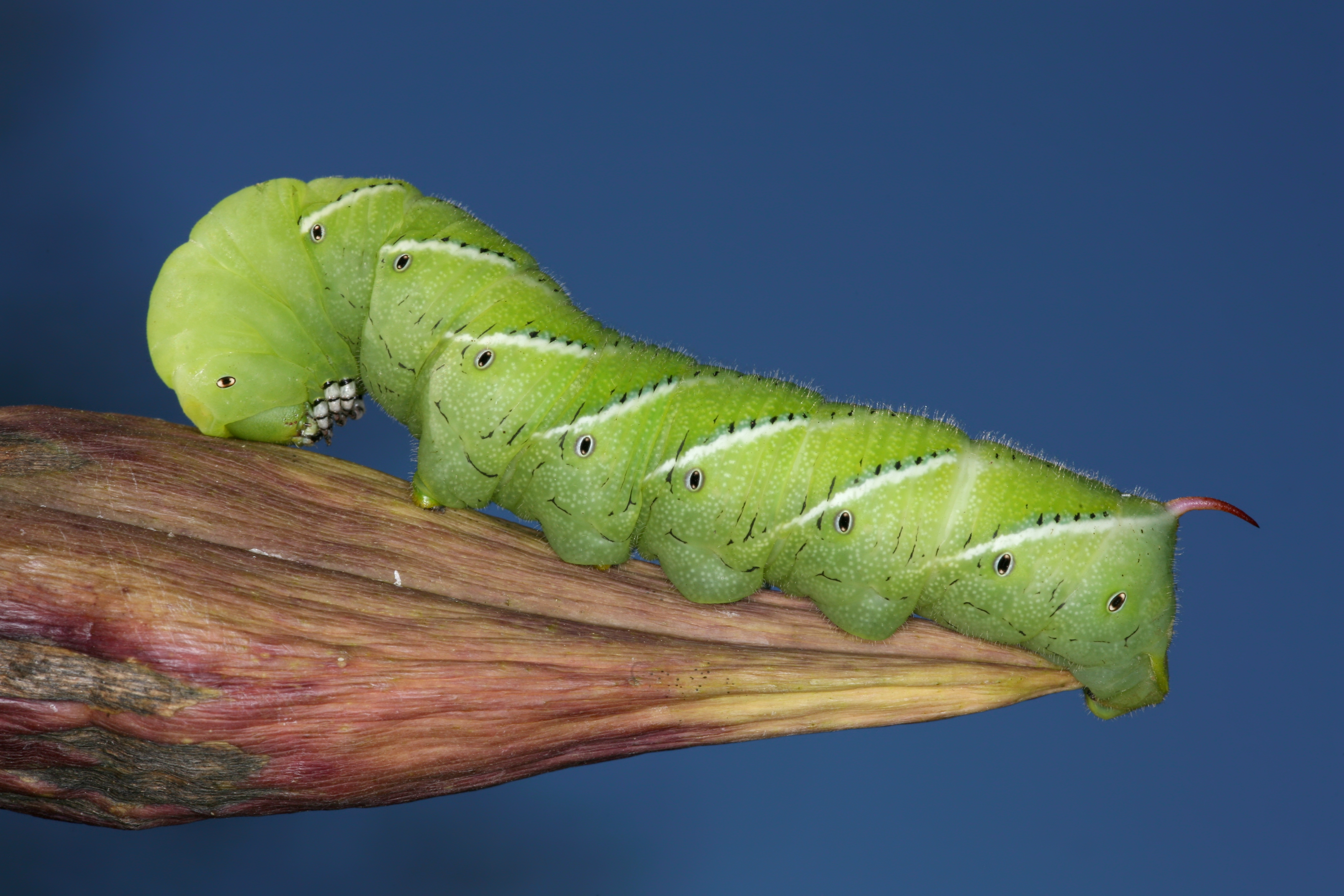 Tobacco Hornworm, found in Urbana, Illinois, USA